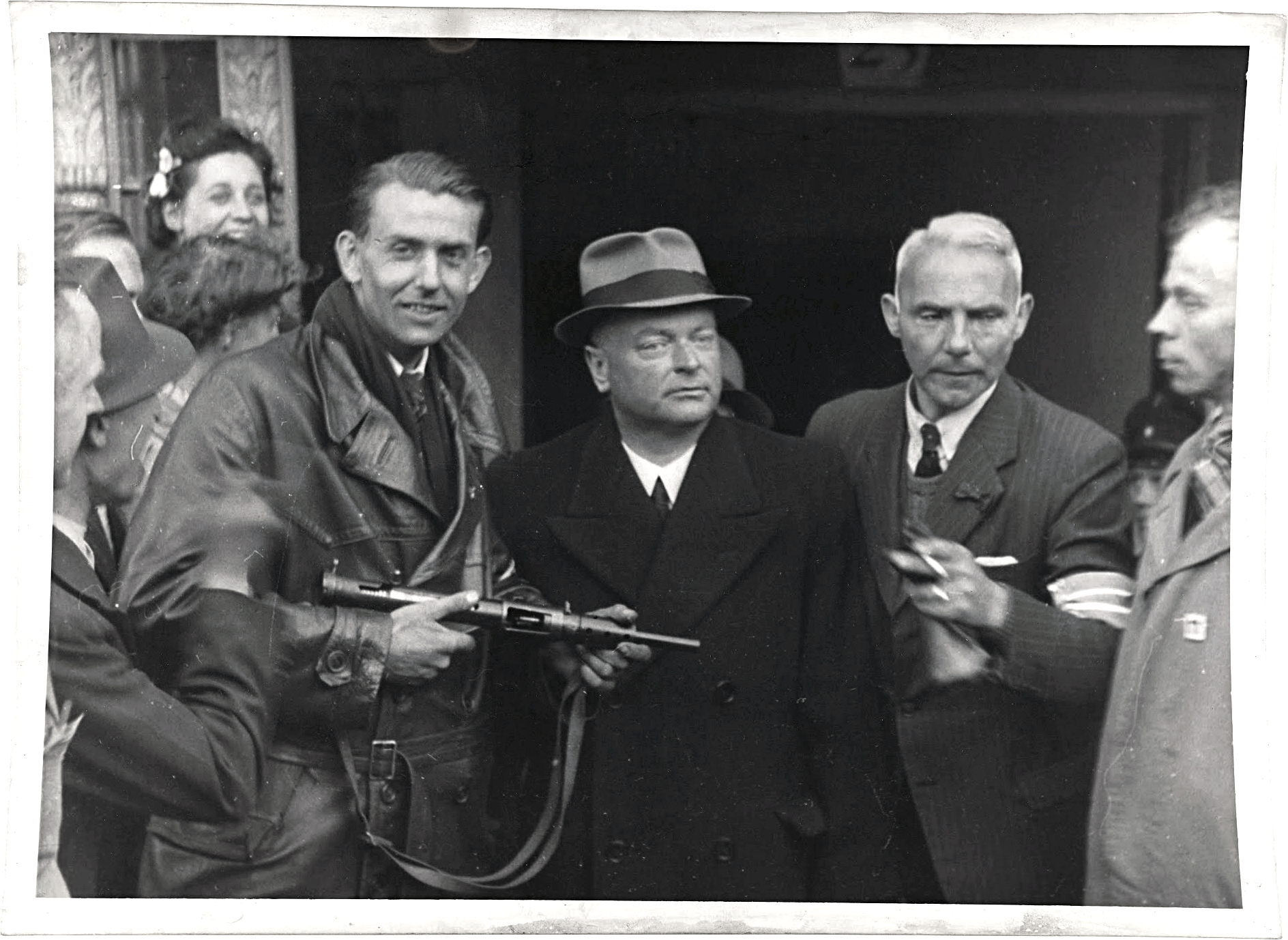 Anton Mussert (1894-1946) is led outside after being detained in his office at Korte Vijverberg in The Hague. The man to the right of Mussert is Johann Gottlieb Crabbendam (1898-1974), during the occupation chief of the Police Information Department and from 1945 on the head of the 'Bureau B' of the Dutch Agency for National Security (BNV). On the far right is Willem Gerard Valken (1895-1987), the new (acting) chief of the municipal police in The Hague.